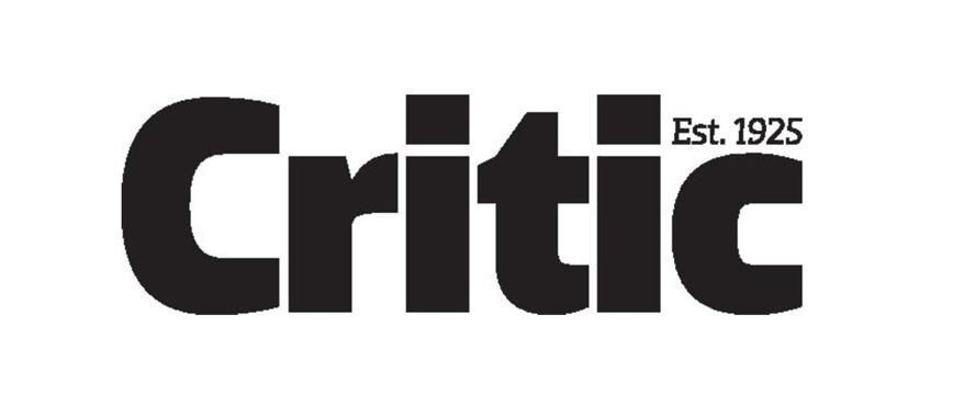 An increased bordered version of the critic logo.